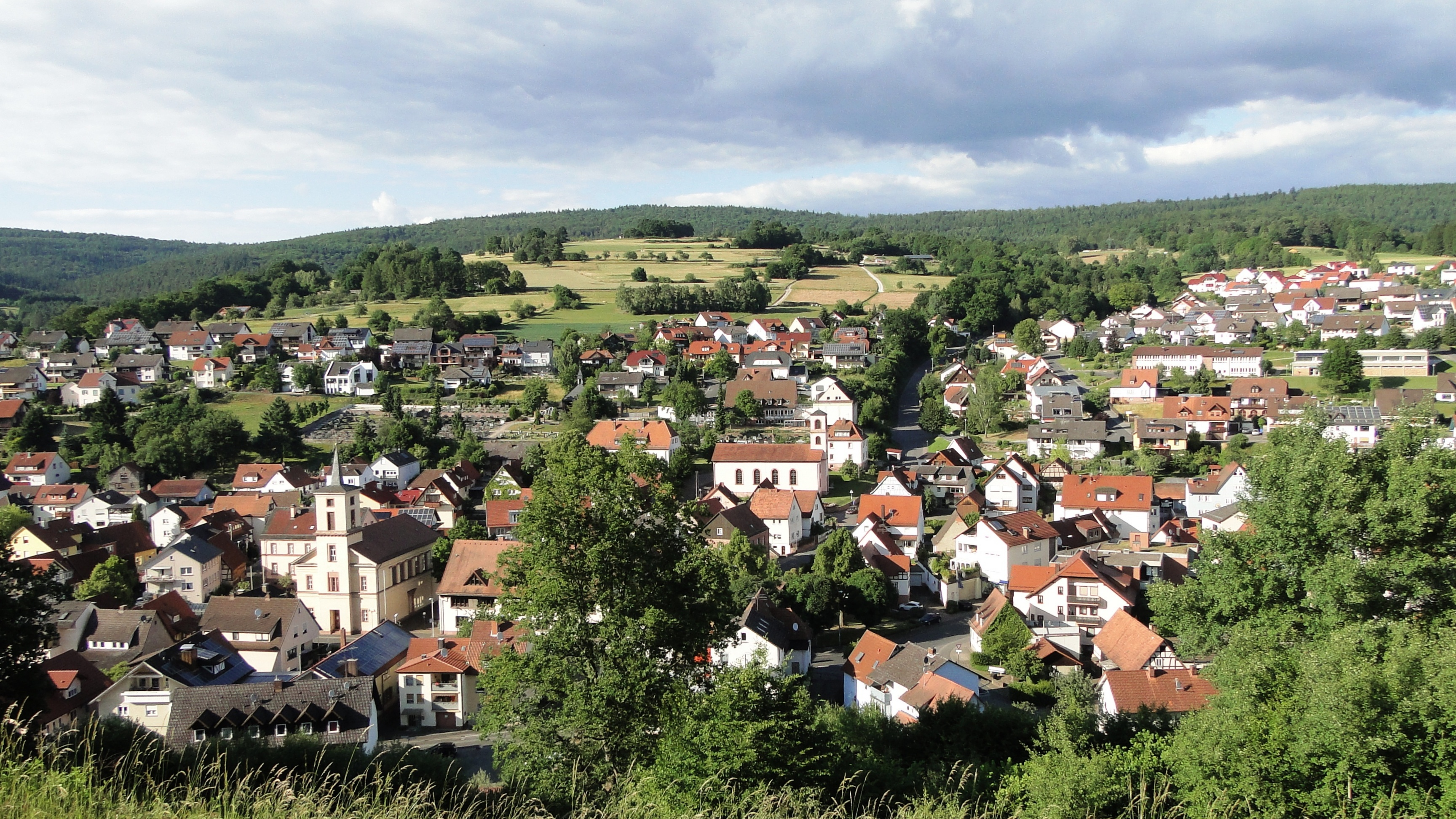 View Partenstein, Franconia, Germany from Burg Bartenstein